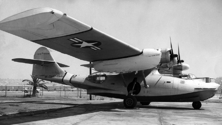 A U.S. Coast Guard Consolidated PBY-5A Catalina flying boat at the Coast Guard Air Station San Diego, California (USA). The aircraft is equipped with a lifeboat under the wing.